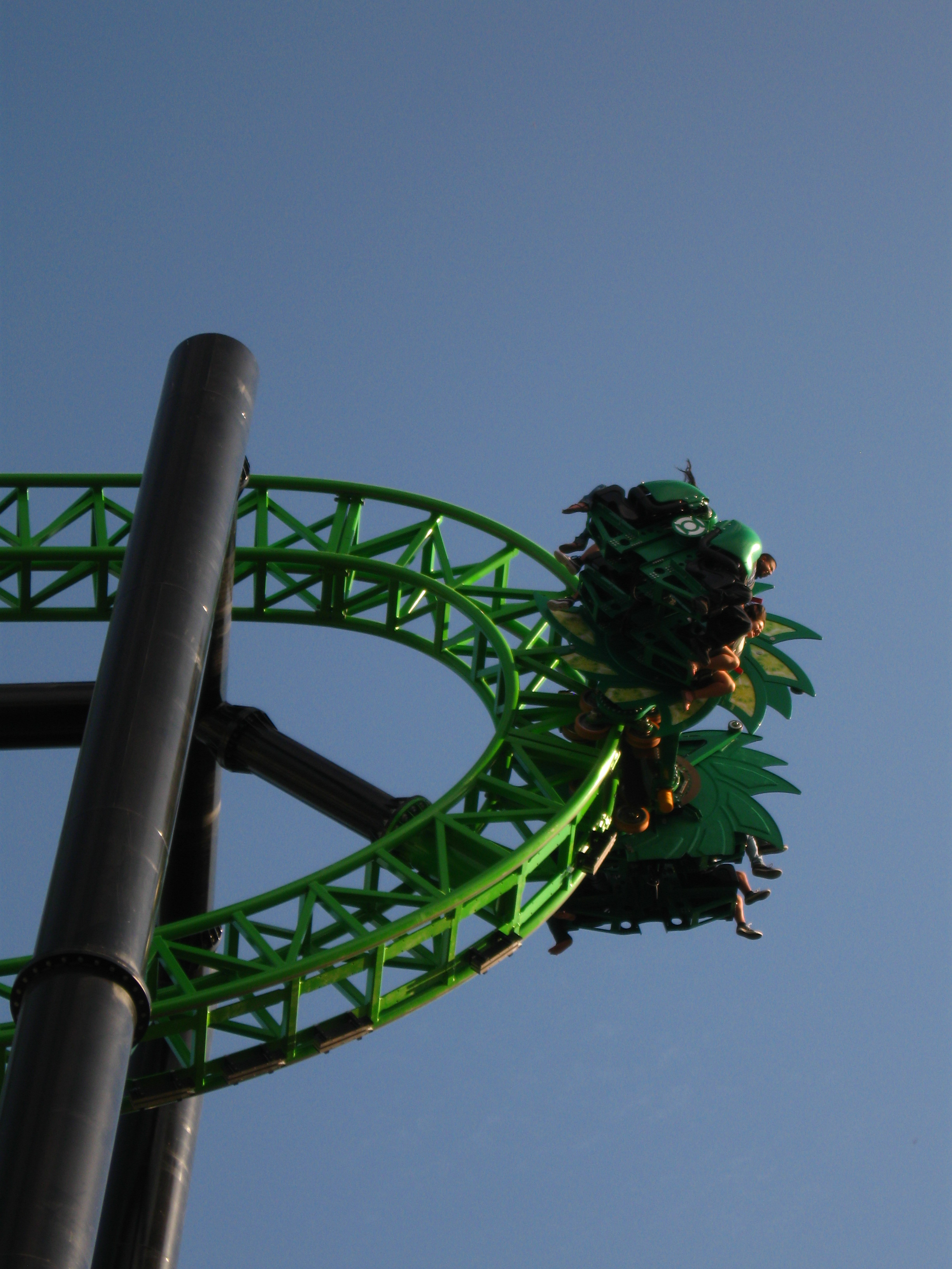 This ride was a trip.